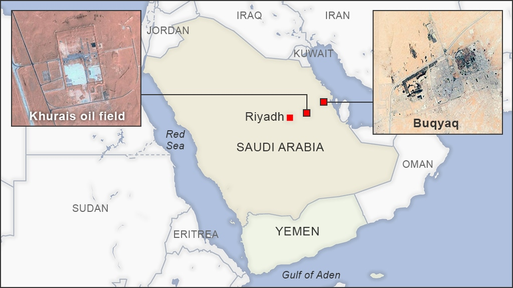 Khurais oil field and Buqyaq Saudi Arabia